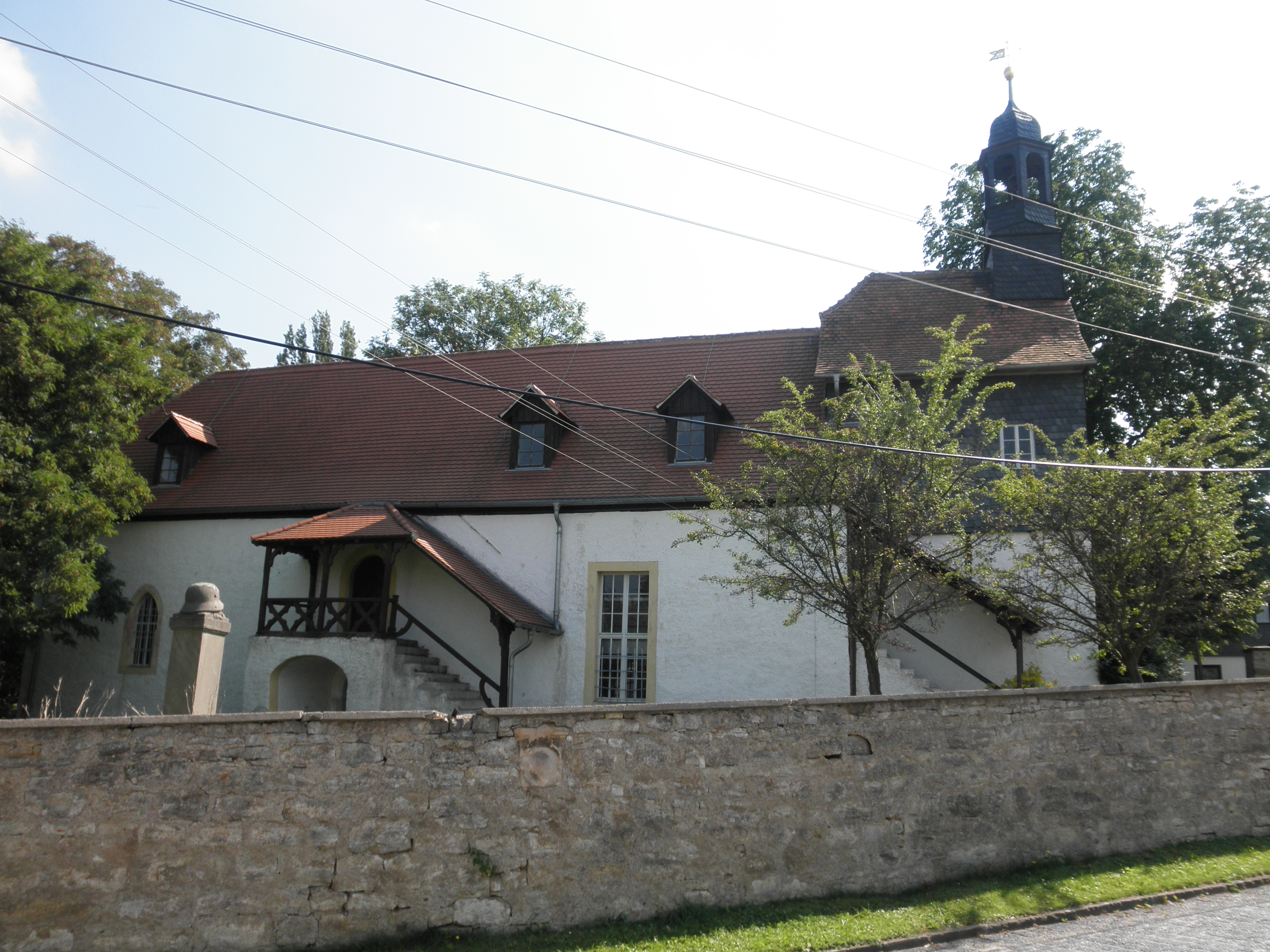 Church in Ramsla in Thuringia